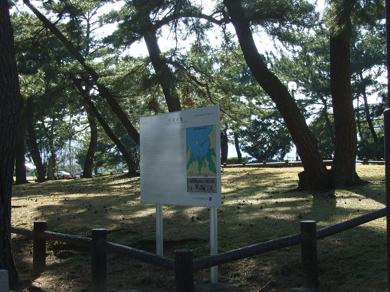 Genko Borui in Odo Park, Nishi Ward, Fukuoka City, Fukuoka, Japan.